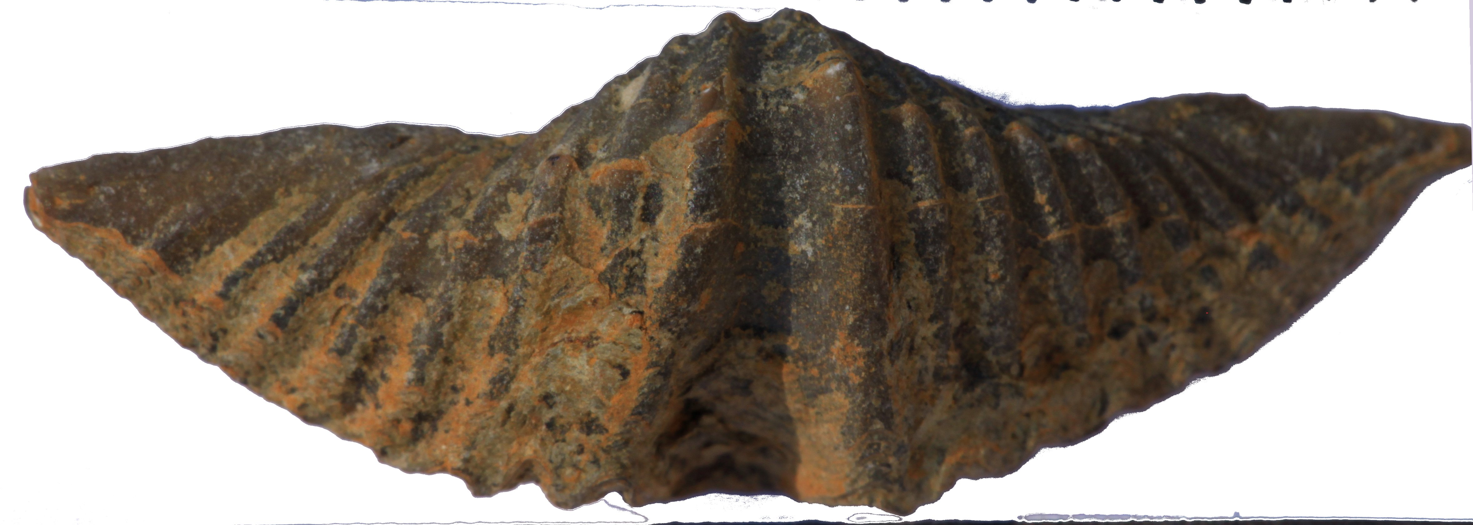 A Mucrospirifer diluvianoides lampshell, 13mm, from the Holy Cross Mountains near Skaly, Poland, early Middle Devonian (Eifellian)